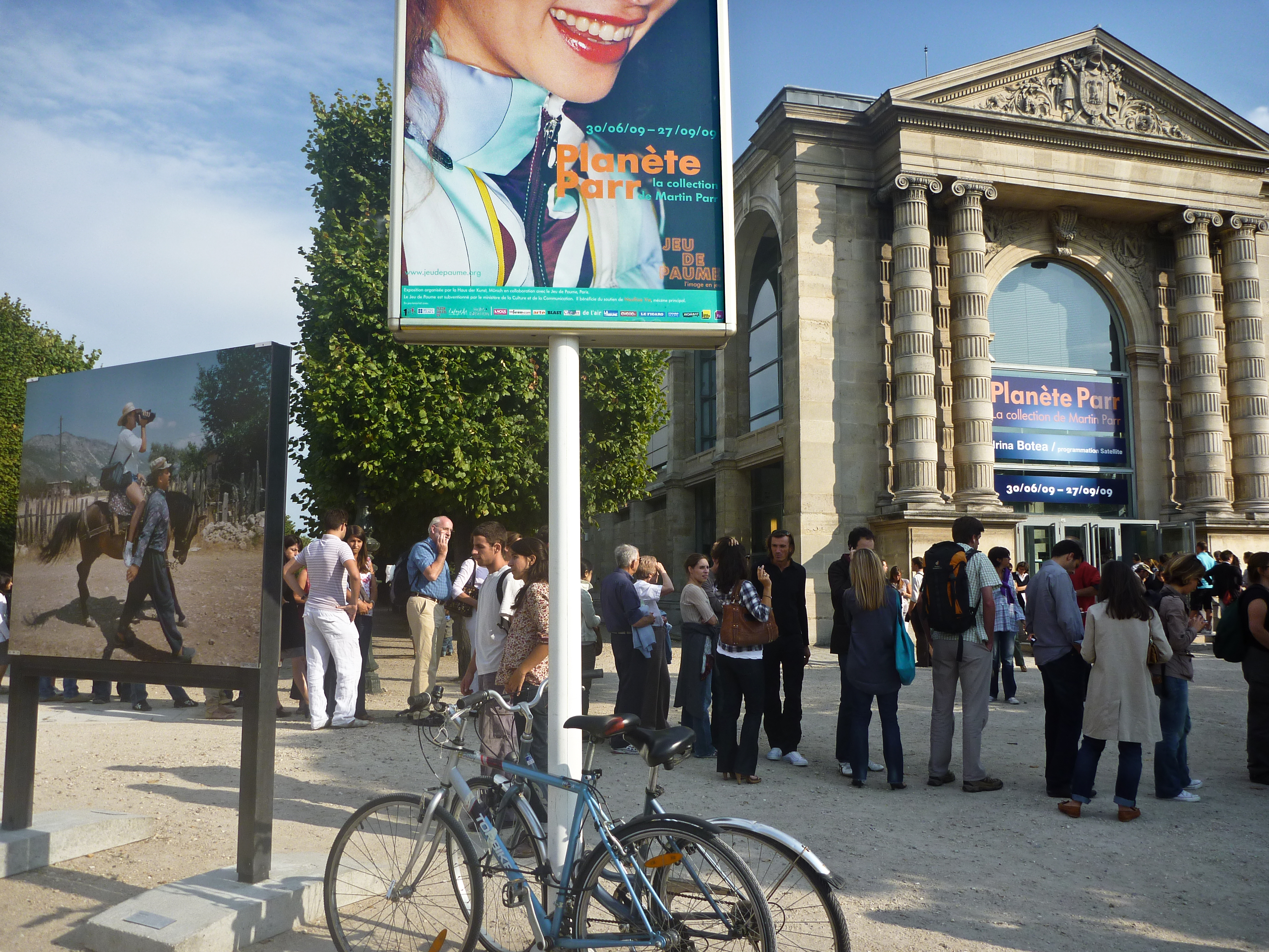 Galerie nationale du Jeu de Paume, Tuileries Gardens, Paris: queue for the Martin Parr exhibition, summer 2009.